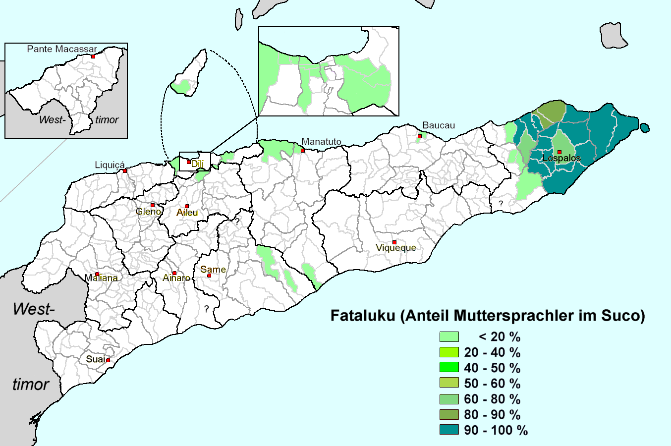 Percentage of people using Fataluku as mother tongue in sucos of East Timor (Timor-Leste), according census 2010